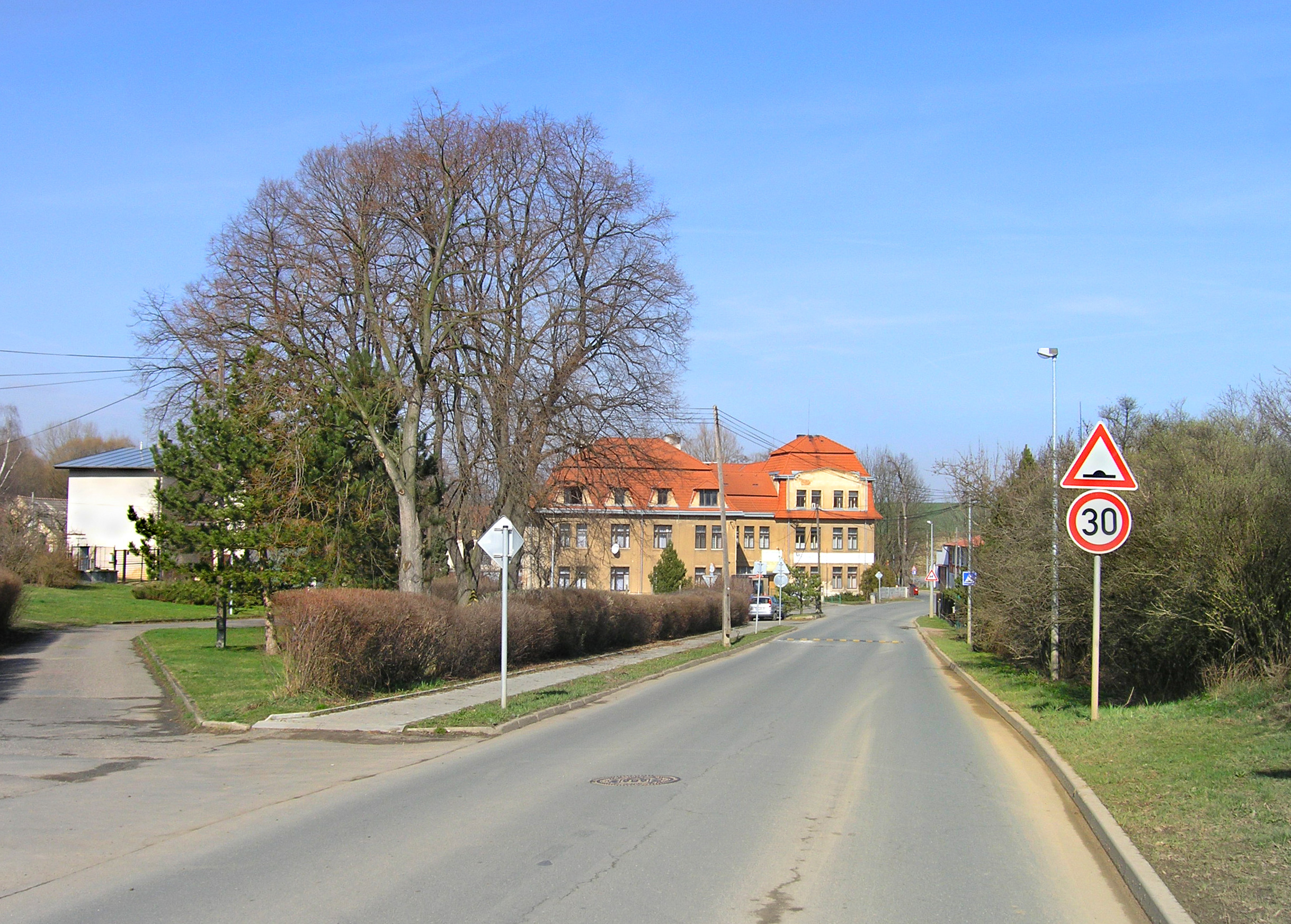 Notrh part of Pitkovice, Prague